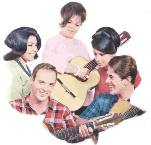 Las Voces Blancas. Folk group. Argentina. Cover of 1º album.